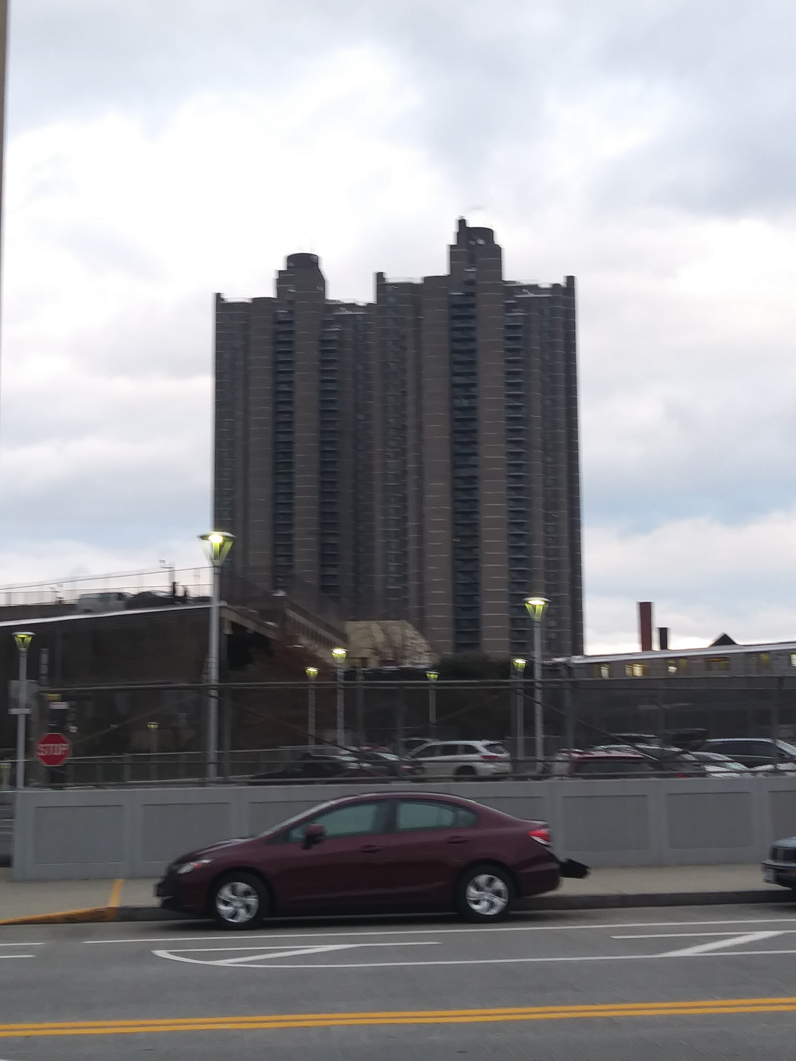 Tracey Towers is the main subject, two skyscrapers in the Bronx.